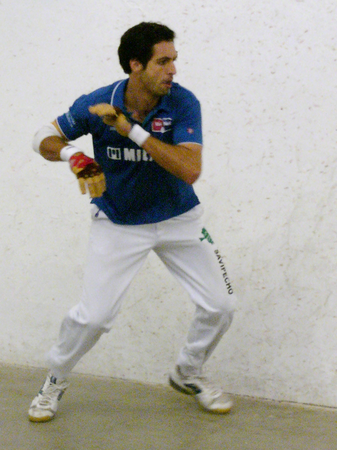 Valencian pilotaire Waldo playing out of his league in Guadassuar during the 1st Trofeu Milar Mà a Mà 7 i Mig semifinals